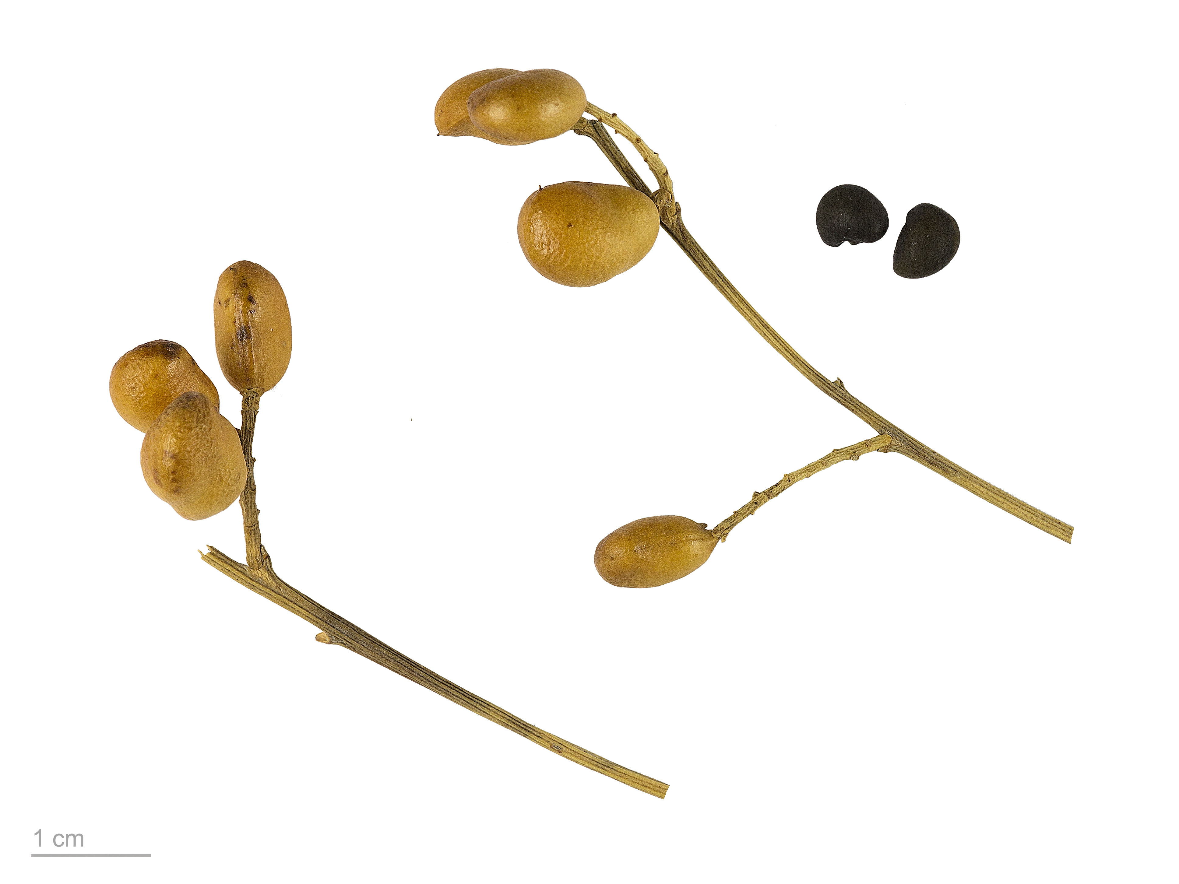 Genista sphaerocarpa , fruits and seeds